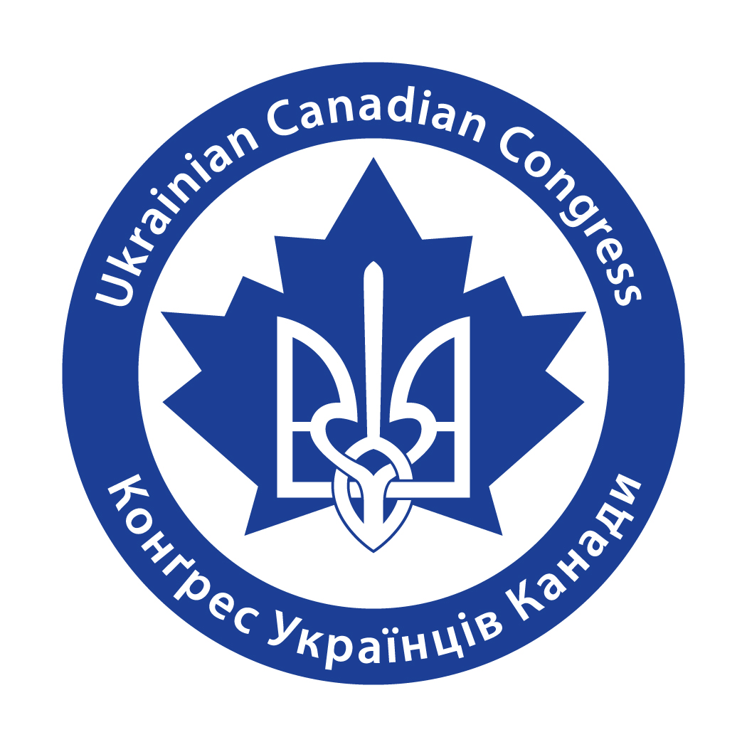 Official logo of the Ukrainian Canadian Congress.